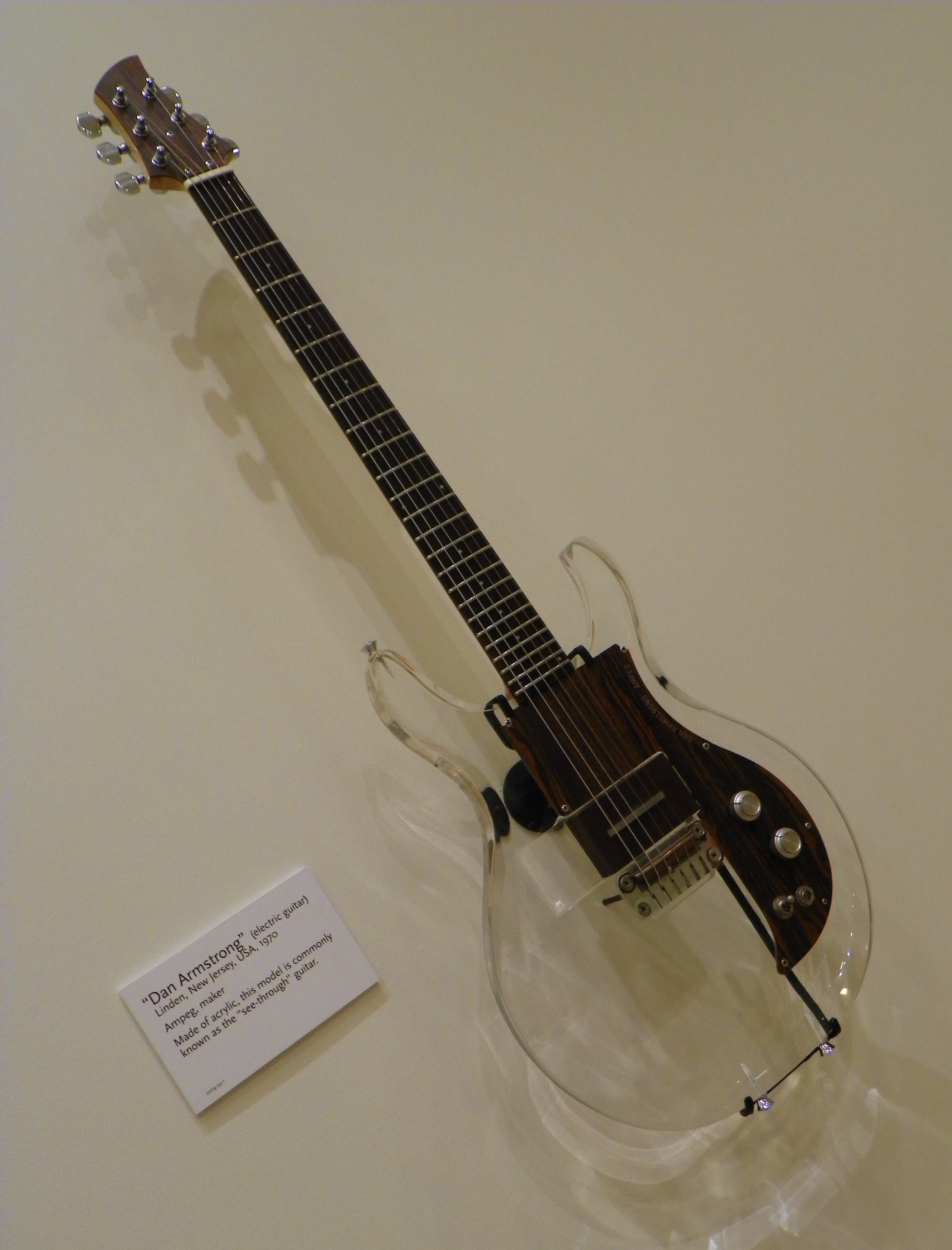 Dan Armstrong "see-through" electric guitar from 1970 for Ampeg. Photograph of musical instrument taken at the Musical Instrument Museum (Phoenix) on 2011-04-26. "Dan Armstrong" (electric guitar) Linden, New Jersey, USA, 1970 Ampeg, maker Made of acrylic, this model is commonly known as the "see-through" guitar.